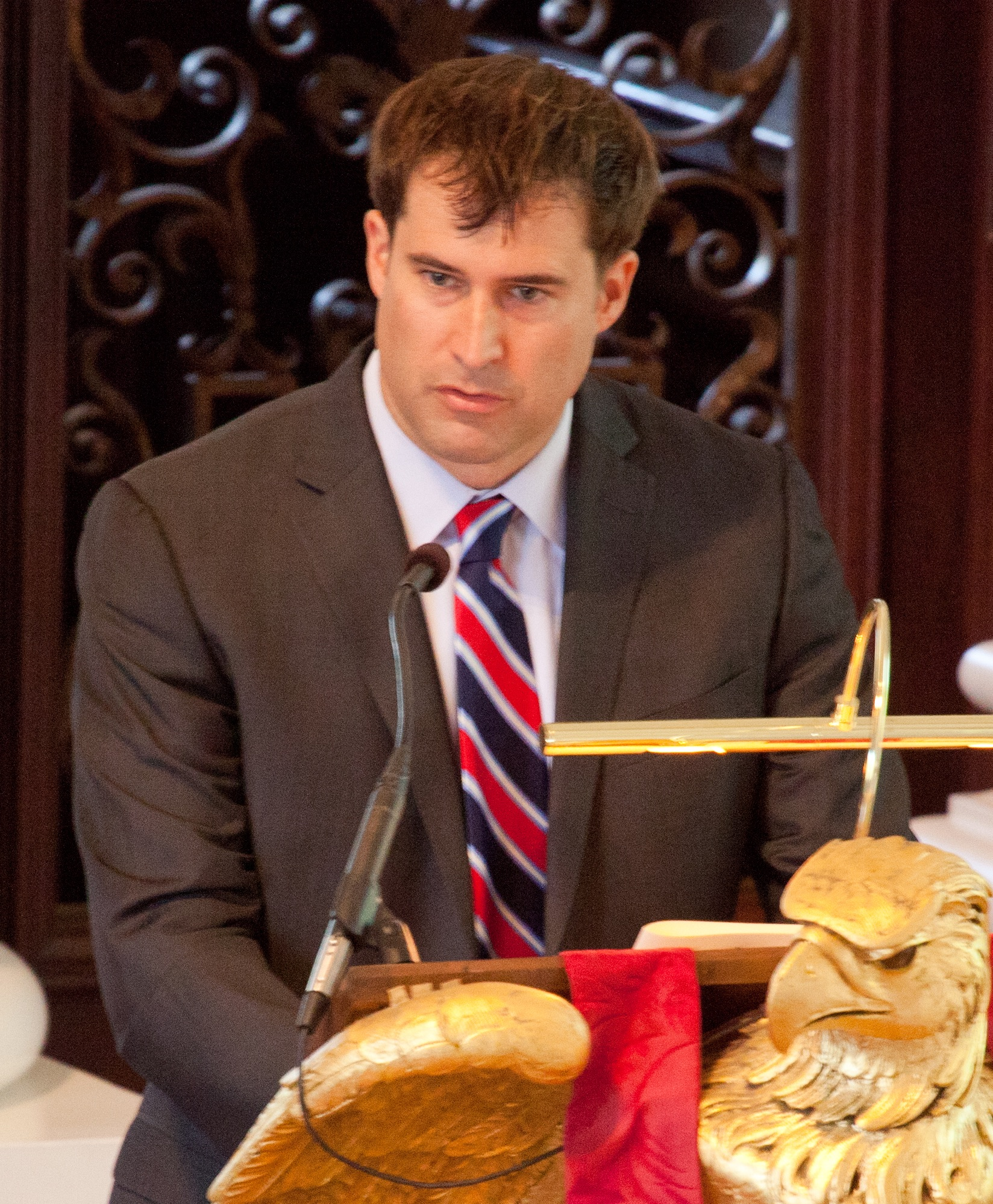 Congressional candidate Seth Moulton speaking in 2011.